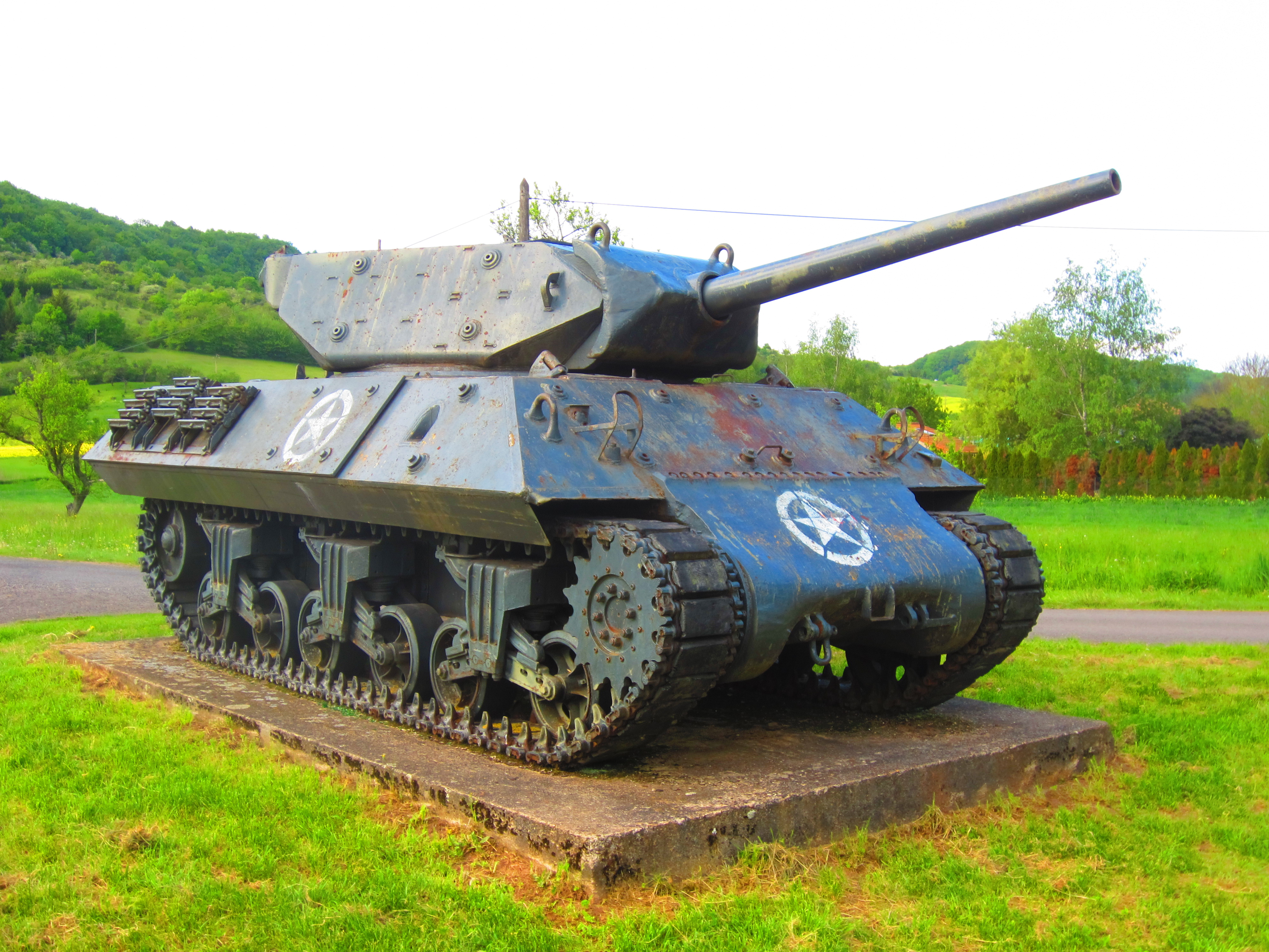 Veckring tank